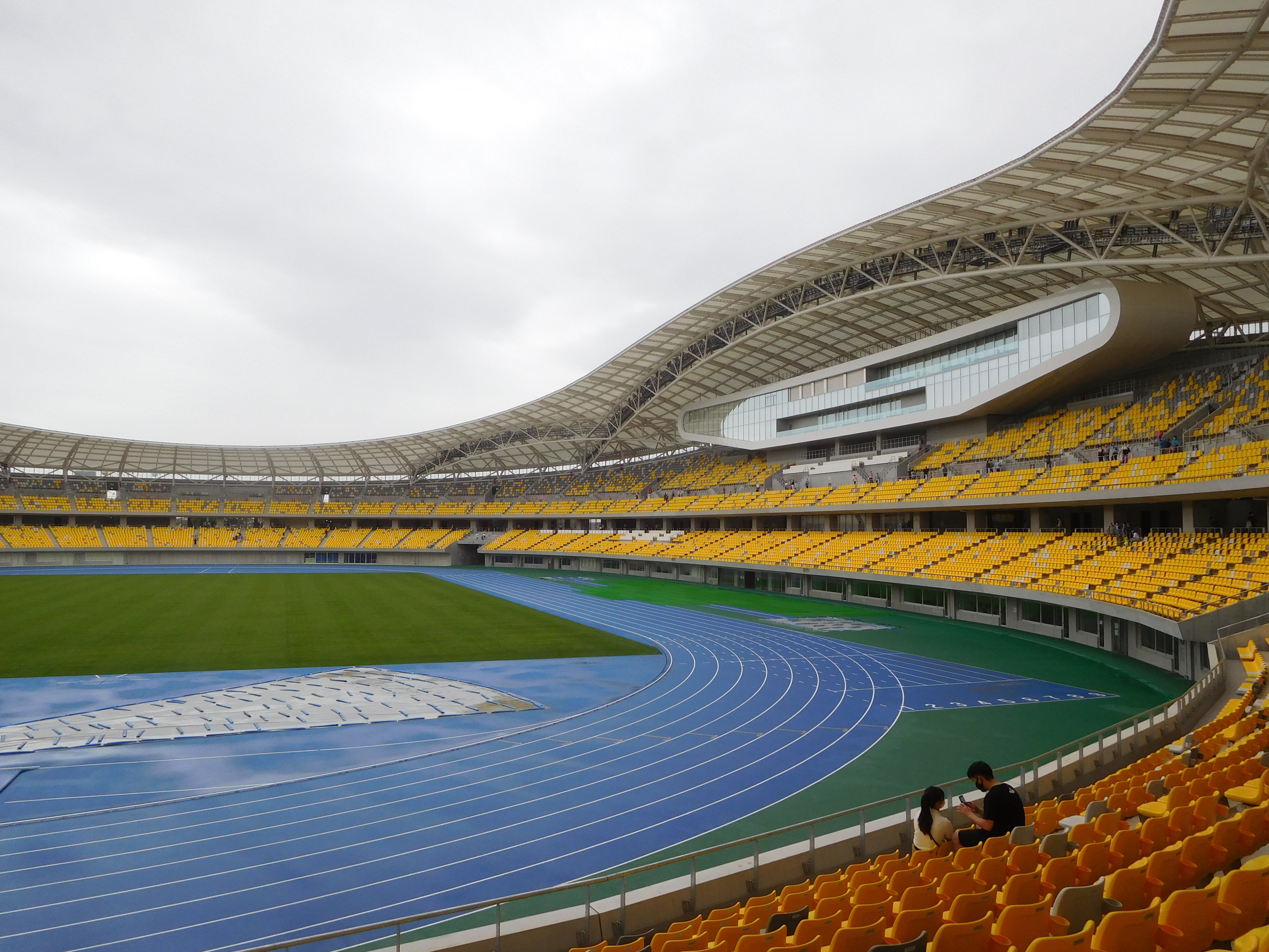 This is tochigi in Utsunomiya, Tochigi, Japan.